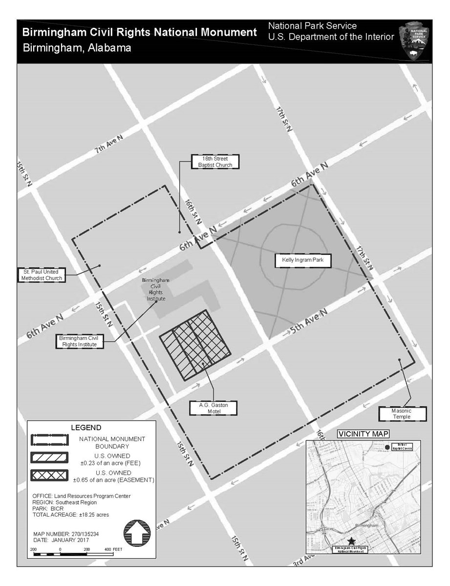 Map of Birmingham Civil Rights National Monument from Proclamation 9565